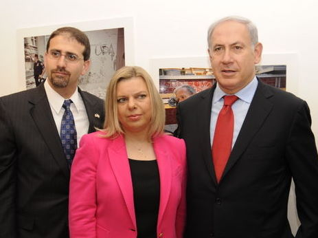 Ambassador Dan Shapiro and Prime Minister Benjamin Netanyahu attended the opening of “Ground Zero for 30 Days” - a photo exhibition by Robby Berman at the Jerusalem House of Quality gallery depicting the first days after the September 11, 2001 terror attacks in lower Manhattan.